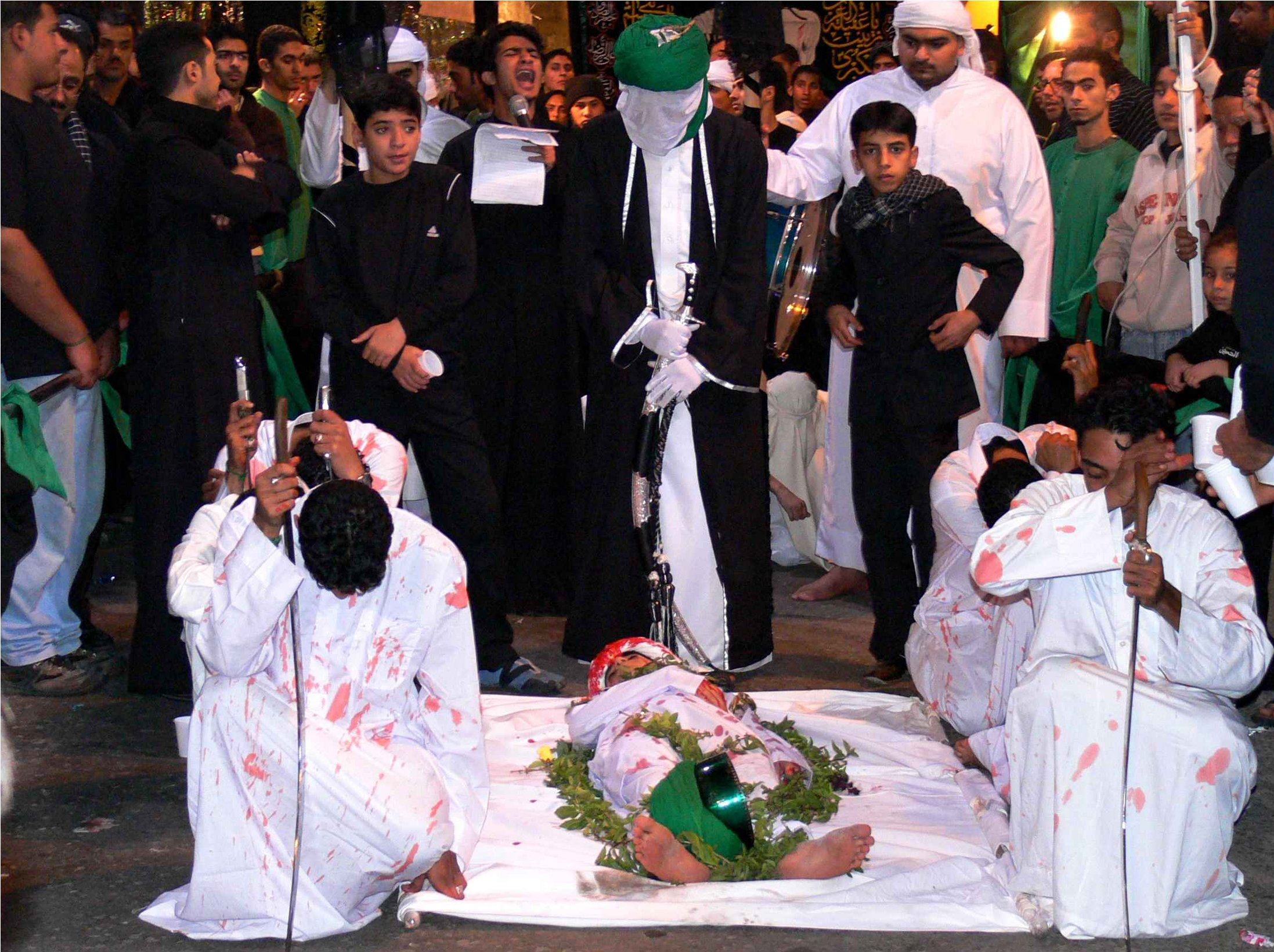 Ashoora (ashura) reenactment in Manama , Bahrain. Original description: Performace showing Imam Hussain standing and looking at his son Ali Al Akbar (Ali senior) after he was martyred in Karbala. Imam Hussain stood in the face of those who wanted to change everything Islam stands for and thus, although he knew he was going to be killed along with all his followers and family members, Imam Hussain chose to go out to battle to save everything Islam stands for. After Imam Hussain's followers were martyred, he did not hesitate in offering and sacrificing his son Ali Al Akbar for Islam. Ali Al Akbar was the first who went out to battle from the family members and it is said that he had a very strong resemblence to Prophet Mohammed. Imam Hussain's nephew (Qassim) was also martyred and Imam Hussain's youngest son who a newborn (Abdulla) was also martyred along with Imam Hussain's half brother Al Abbas. Imam Hussain was killed after not accepting to pledge allegience to Yazeed who was not the rightful leader. Imam Hussain is the grandson of the prophet Mohammed, the son of prophet Mohammed's daughter and Prophet Mohammed's cousin Imam Ali.Ashoora